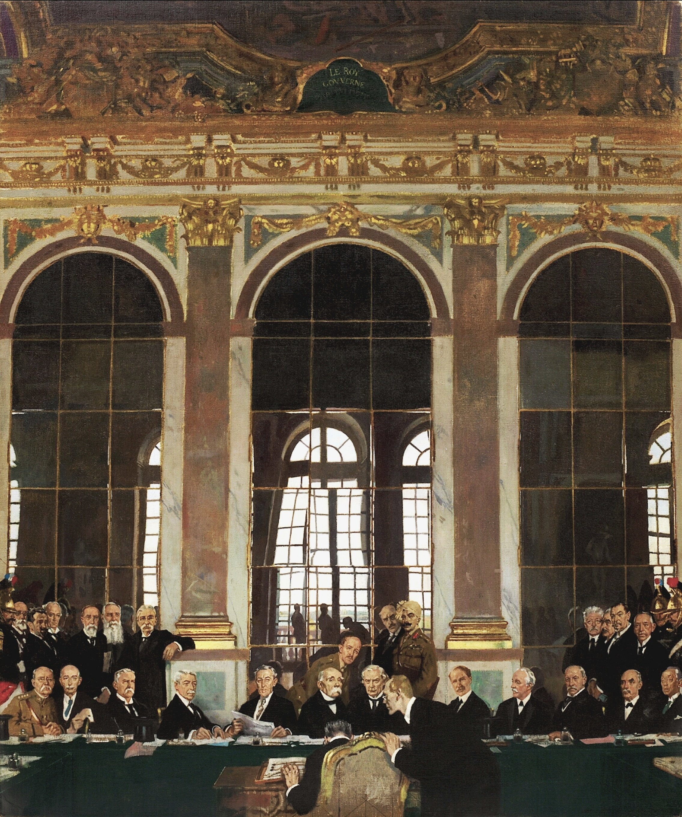 A view of the interior of the Hall of Mirrors at Versailles, with the heads of state sitting and standing before a long table. Front Row: Dr Johannes Bell (Germany) signing with Herr Hermann Muller leaning over him. Middle row (seated, left to right): General Tasker H Bliss, Col E M House, Mr Henry White, Mr Robert Lansing, President Woodrow Wilson (United States); M Georges Clemenceau (France); Mr D Lloyd George, Mr A Bonar Law, Mr Arthur J Balfour, Viscount Milner, Mr G N Barnes (Great Britain); The Marquis Saionzi (Japan). Back row (left to right): M Eleutherios Venizelos (Greece); Dr Affonso Costa (Portugal); Lord Riddell (British Press); Sir George E Foster (Canada); M Nikola Pachitch (Serbia); M Stephen Pichon (France); Col Sir Maurice Hankey, Mr Edwin S Montagu (Great Britain); the Maharajah of Bikaner (India); Signor Vittorio Emanuele Orlando (Italy); M Paul Hymans (Belgium); General Louis Botha (South Africa); Mr W M Hughes (Australia). Note: This description was copied verbatim from the Imperial War Museum exhibit, where some names differ from their official spelling (Muller vs Müller, Eleutherios vs Eleftherios, Affonso vs Afonso, Saionzi vs Saionji, Patchitch vs Pašić, Stephen vs Stéphen). We keep the original text for historical accuracy.